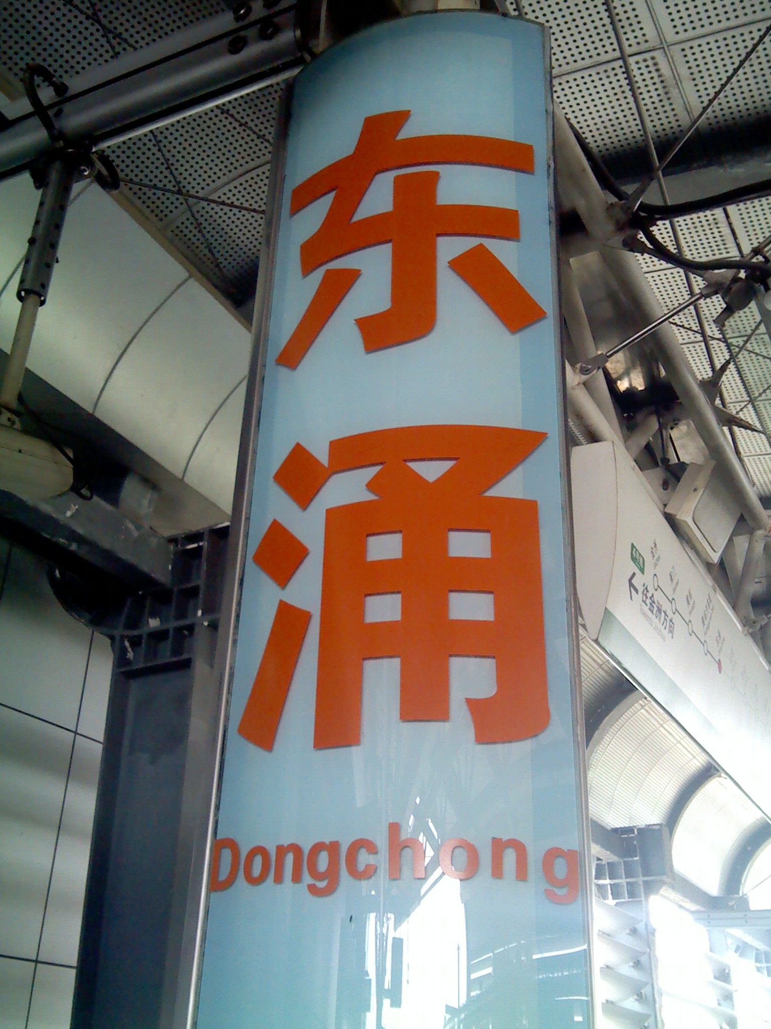 东涌站柱子上的站名